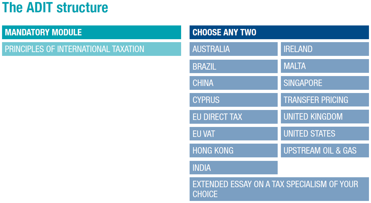 Structure of the ADIT (Advanced Diploma in International Taxation) qualification